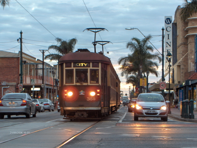 H type trams 358 and 357 at Brighton Road tram stop on a City bound service, 2 months before withdrawl from service in August 2006. These two trams (along with 364) were the last unrefurbished H types to be withdrawn from service with these two going to the Sydney Tramway Museum at Loftus.